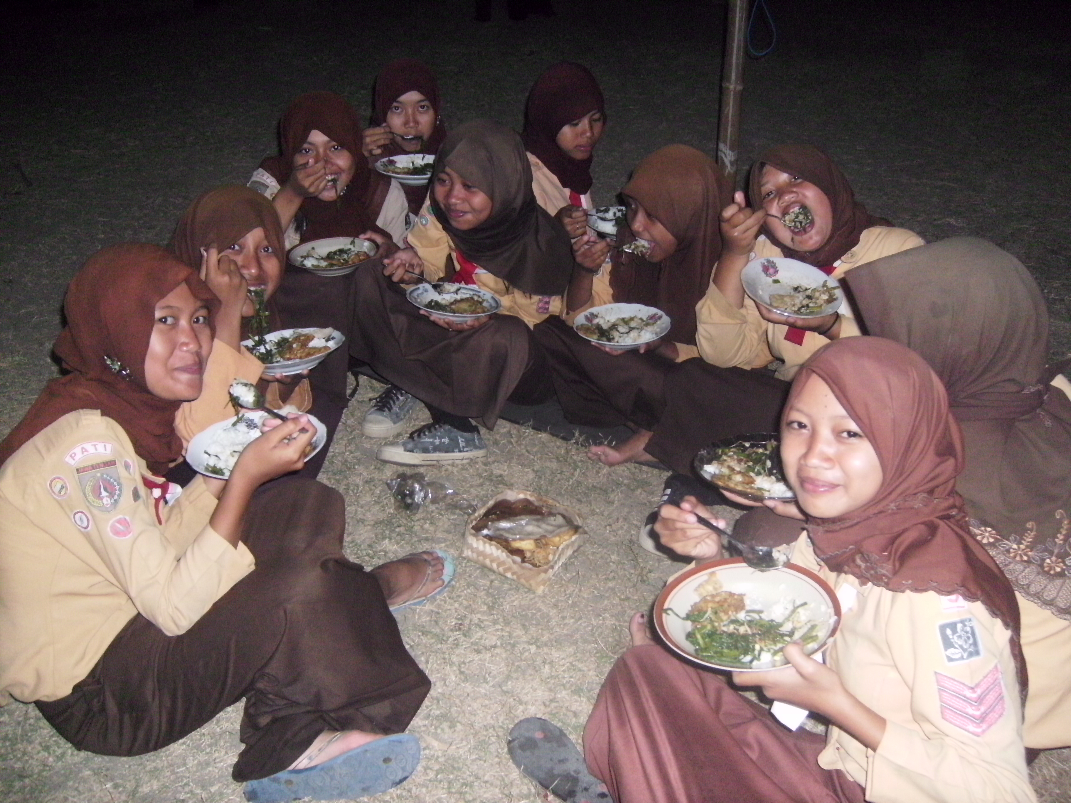 Brownies